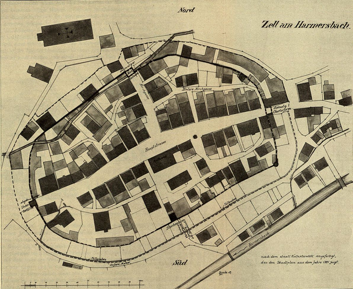 Map of Zell am Harmersbach, Baden-Württemberg, in 1881